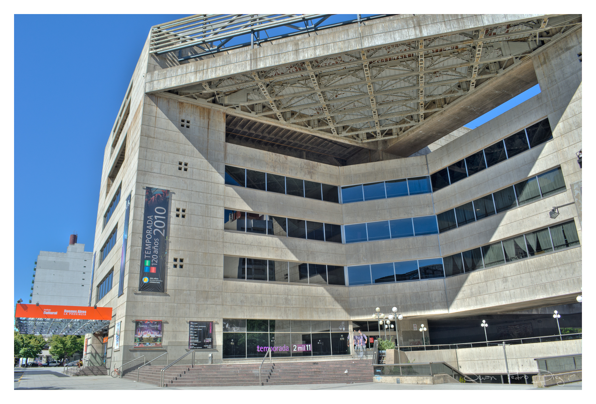 Teatro Argentino de La Plata, Argentina. Designed in 1979 to replace the grand Renaissance Revivalist structure gutted by fire in 1977, and only completed in 1999 (an unwitting symbol of the mostly tragic changes undergone by Argentine culture in the ensuing years).